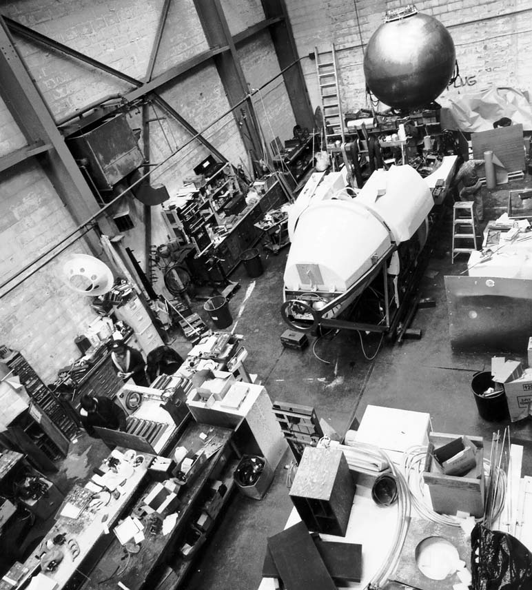 Project FAMOUS, the French-American Mid-Ocean Undersea Study, offered the DSV Alvin the opportunity to participate in close-range studies and mapping of the Mid-Atlantic Ridge rift valley, 200 miles south of the Azores. Because the Ridge averaged a depth of 7200 feet and a maximum depth of approximately 12,000 feet, Alvin had to be refitted to meet the requirements of the new mission. In 1974, equipped with a new titanium personnel sphere capable of diving to 12,000 ALVIN joined the French submersibles Cyana and Archimede to look at one of the largest surface features on Earth. Project FAMOUS confirmed the theory of plate tectonics and continental drift.